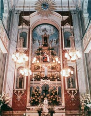 Foto donated by Robson Gama to Centro Cultural de Barra do Piraí which gave it to Jorge Luiz Dutra Iório in order to make a historical work about Barra do Piraí.